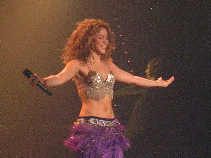 Shakira during the Oral Fixation Tour 2006, La Coruña-Spain.